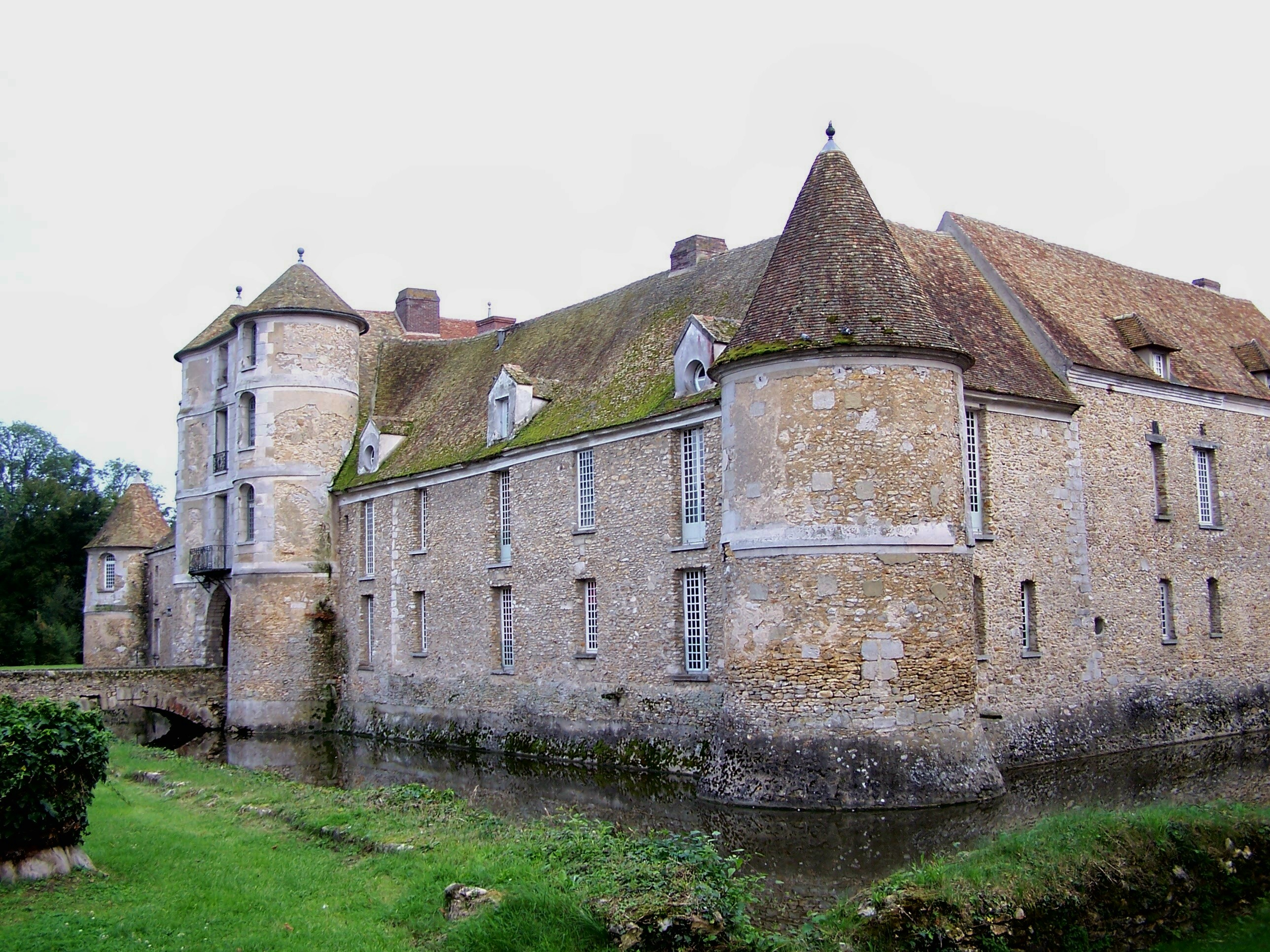 East Frontage of the castle of Villiers-le-Mahieu (Yvelines, France)